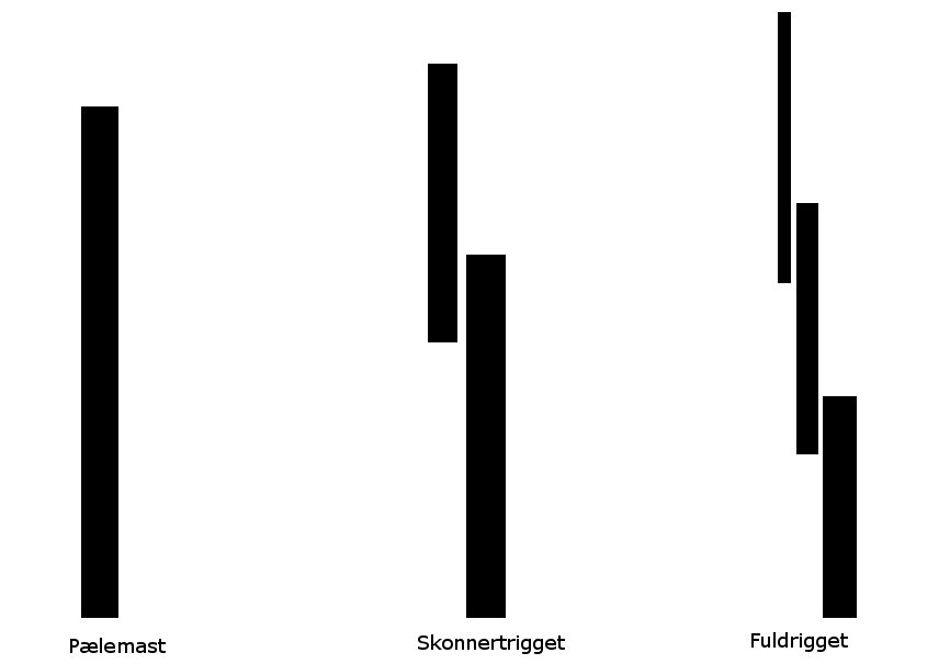 mast types